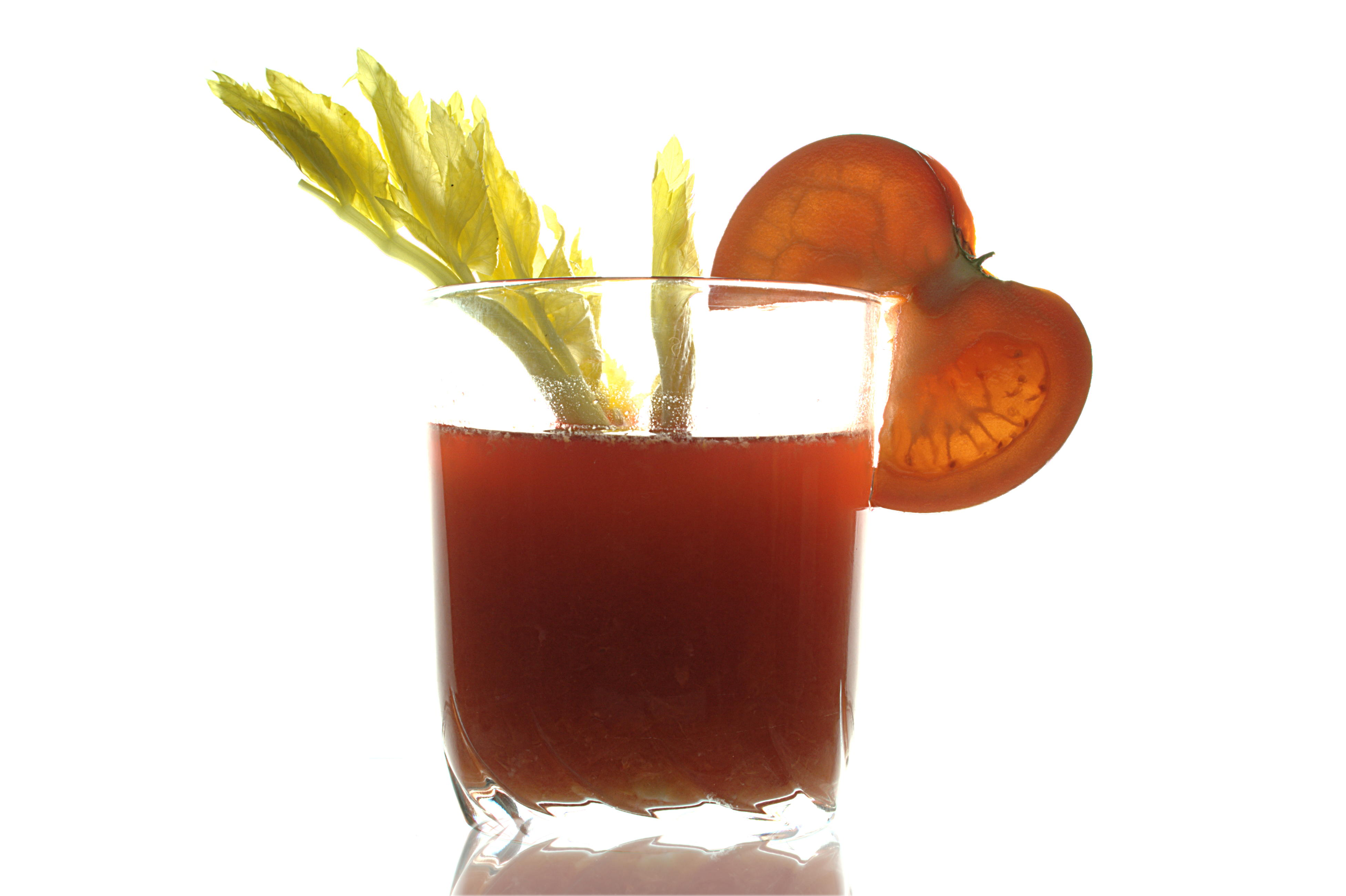 Tomato Juice in a glas, decorated with tomato slice and sprig